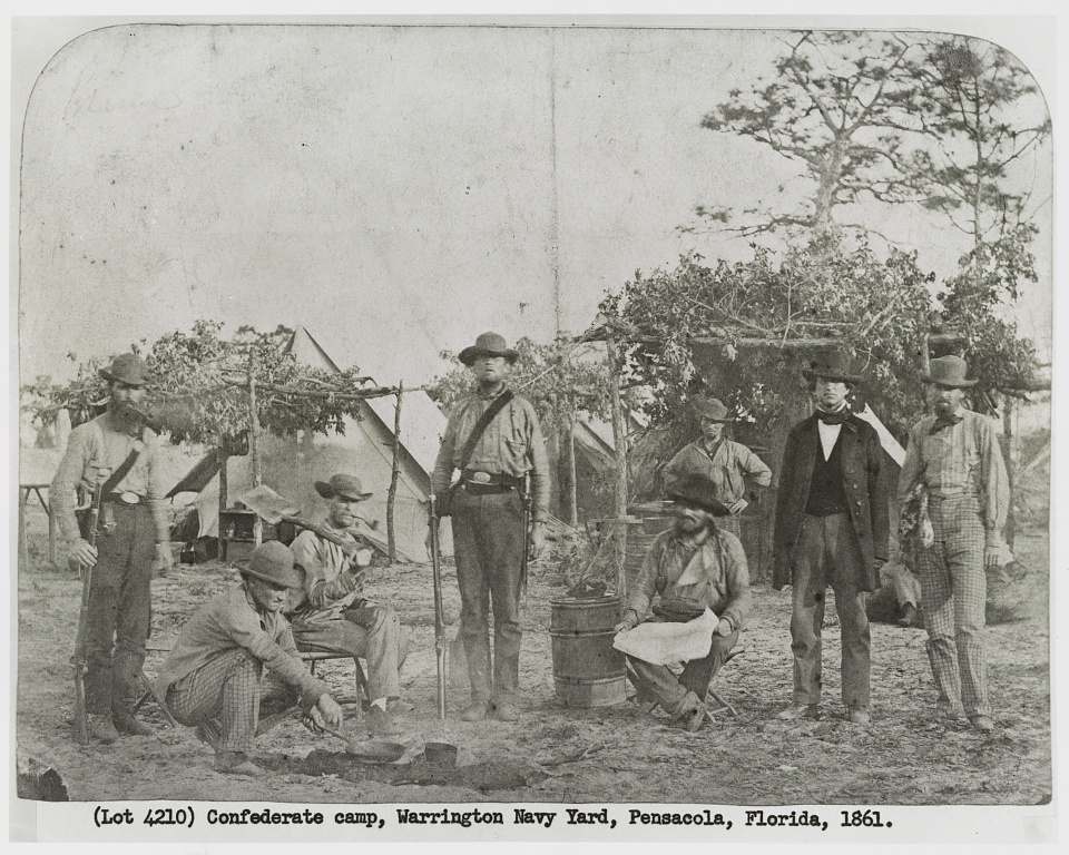 Title: Confederate camp, Warrington Navy Yard, Pensacola, Florida, 1861 Abstract: Photograph shows Company B of the 9th Mississippi in a bivouac camp. The cook is identified as Kinlock Falconer. (Information from the Image of War, 1981). Physical description: 1 photographic print : gelatin silver. Notes: Original salted paper print in PH-Edwards (J.) no. 1 (A size).; Photograph published in: The Image of War 1861-1865, Garden City, N.Y. : Doubleday & Company, Inc., 1981, vol. 1, pg. 361.; Title from item.